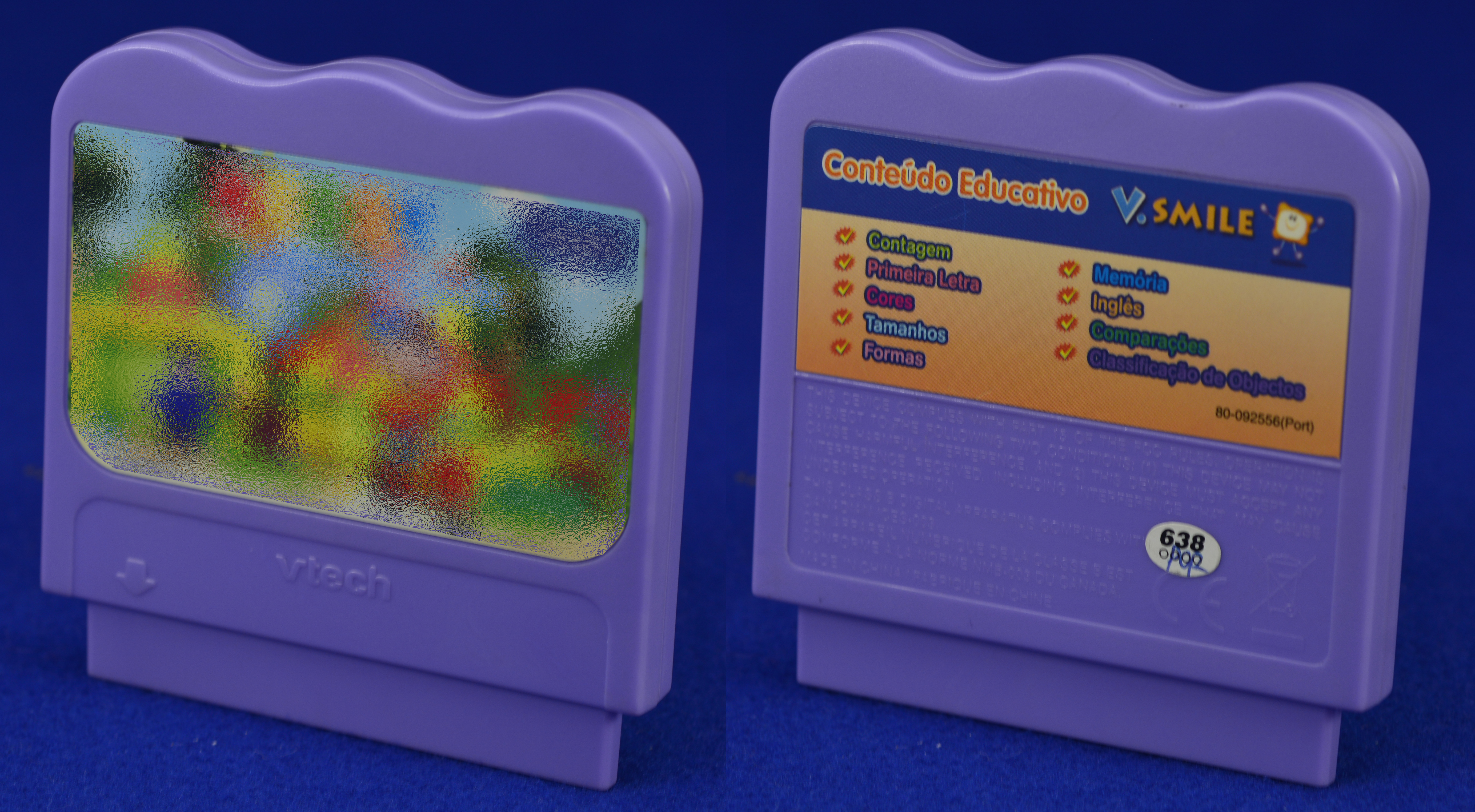 The common purple game cartridge of a V.Smile console by VTech.